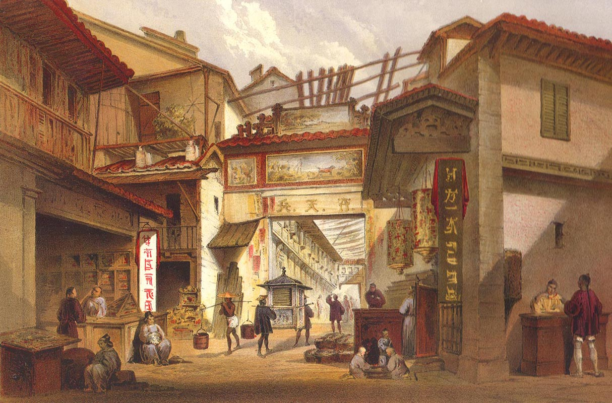 Old China street in Canton, 1856.